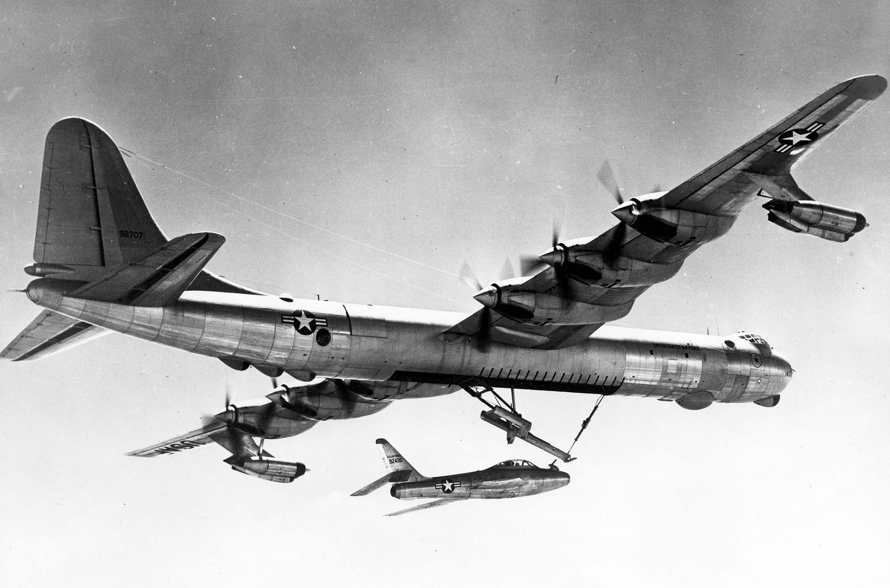 A Convair GRB-36F and Republic YRF-84F during tests the FICON Project.